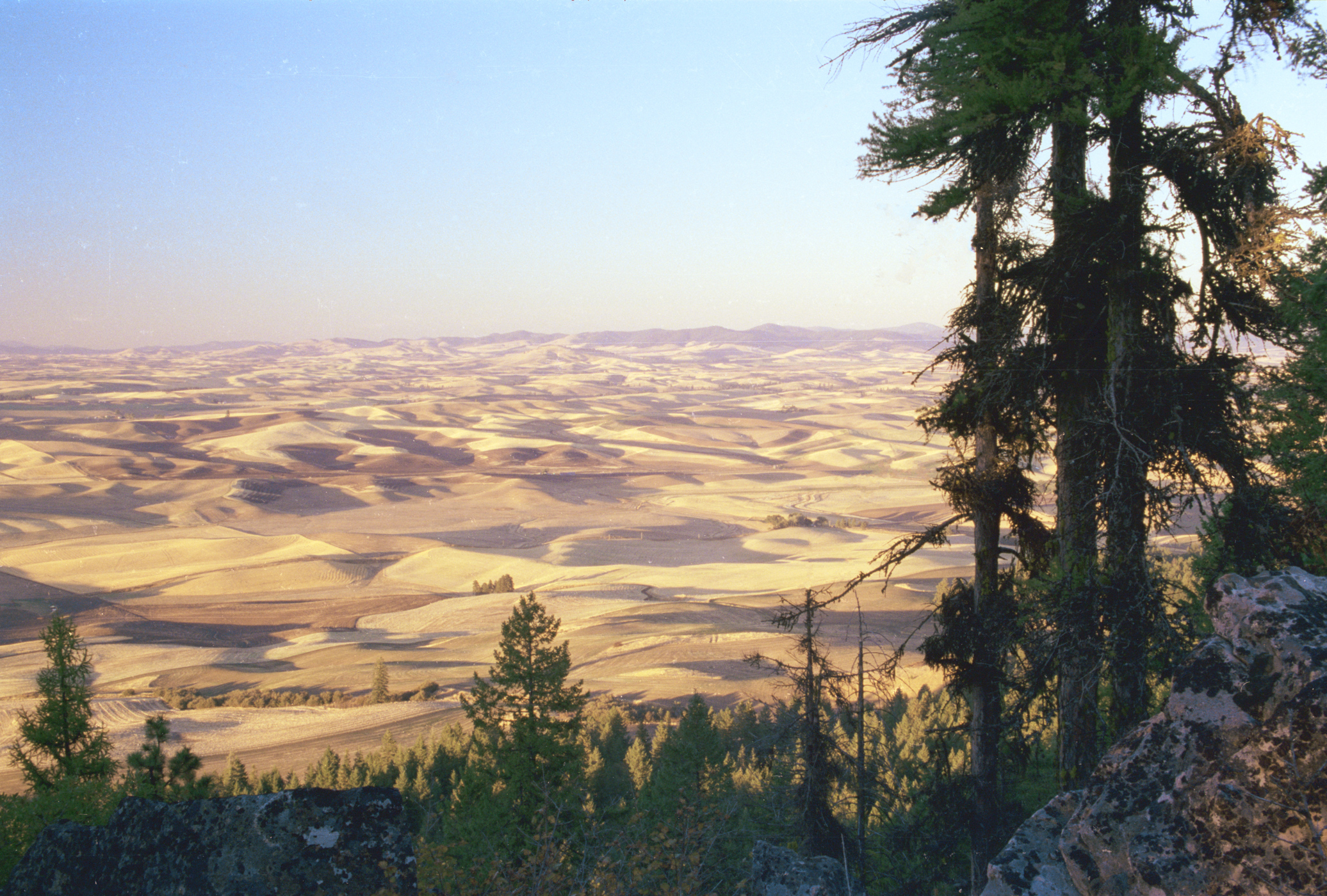 Palouse Fields from Kamiak Butte, autumn